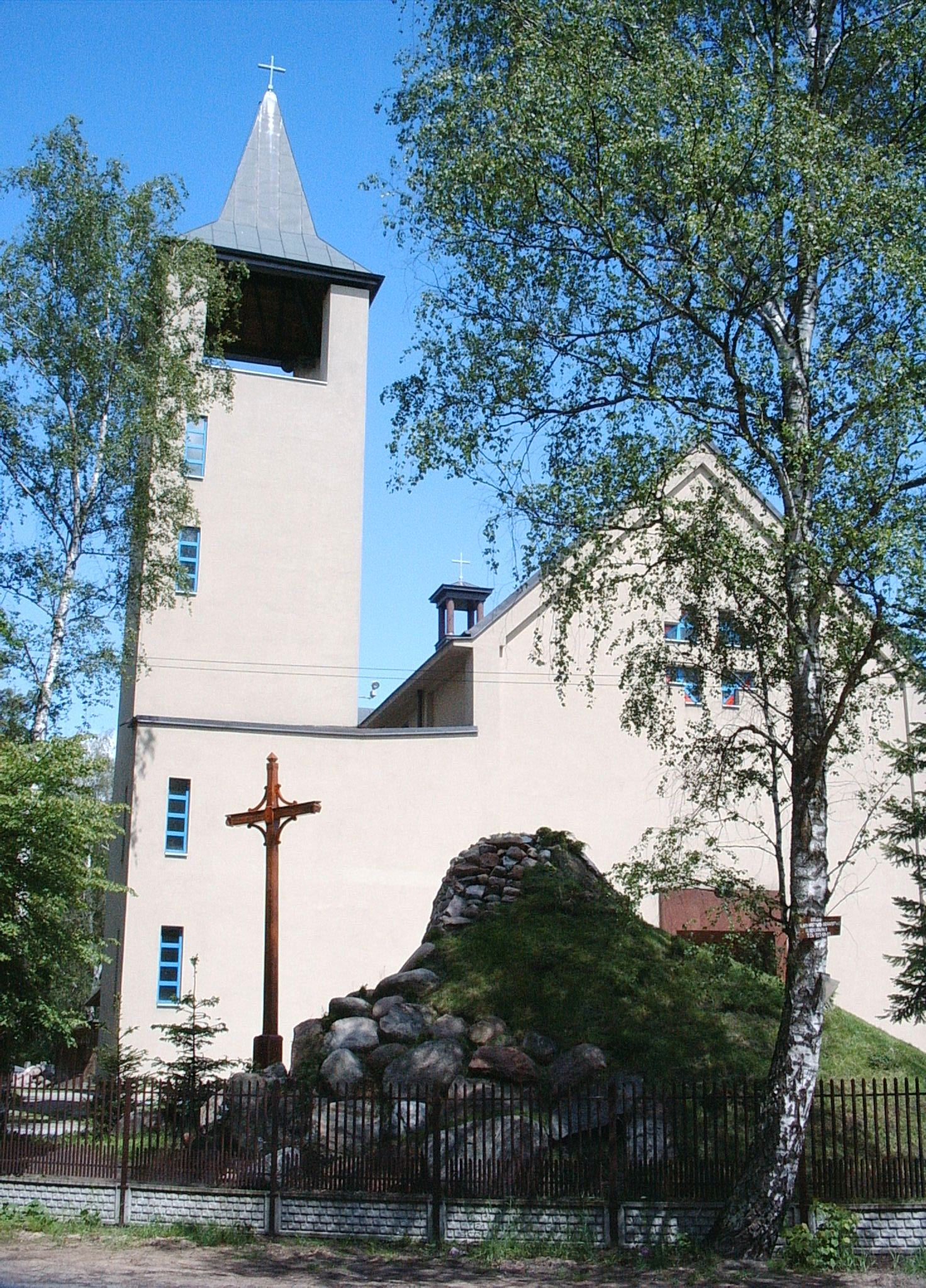 Church in Kedzierowka